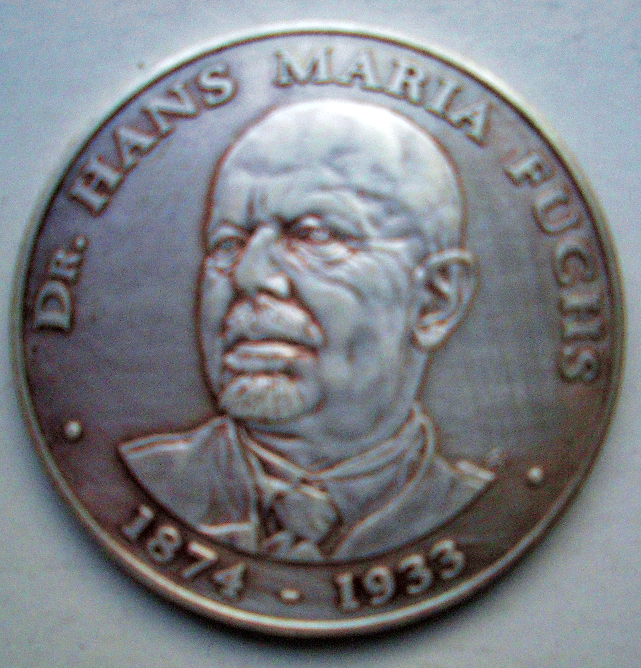 Dr. Hans Maria Fuchs 1874 - 1933 Sankt Peter im Sulmtal Memory Thaler.